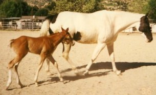 A Breeding Stock Paint foal and its dam. Picture taken by me (Mary Miller). Horses owned by me (Mary Miller)